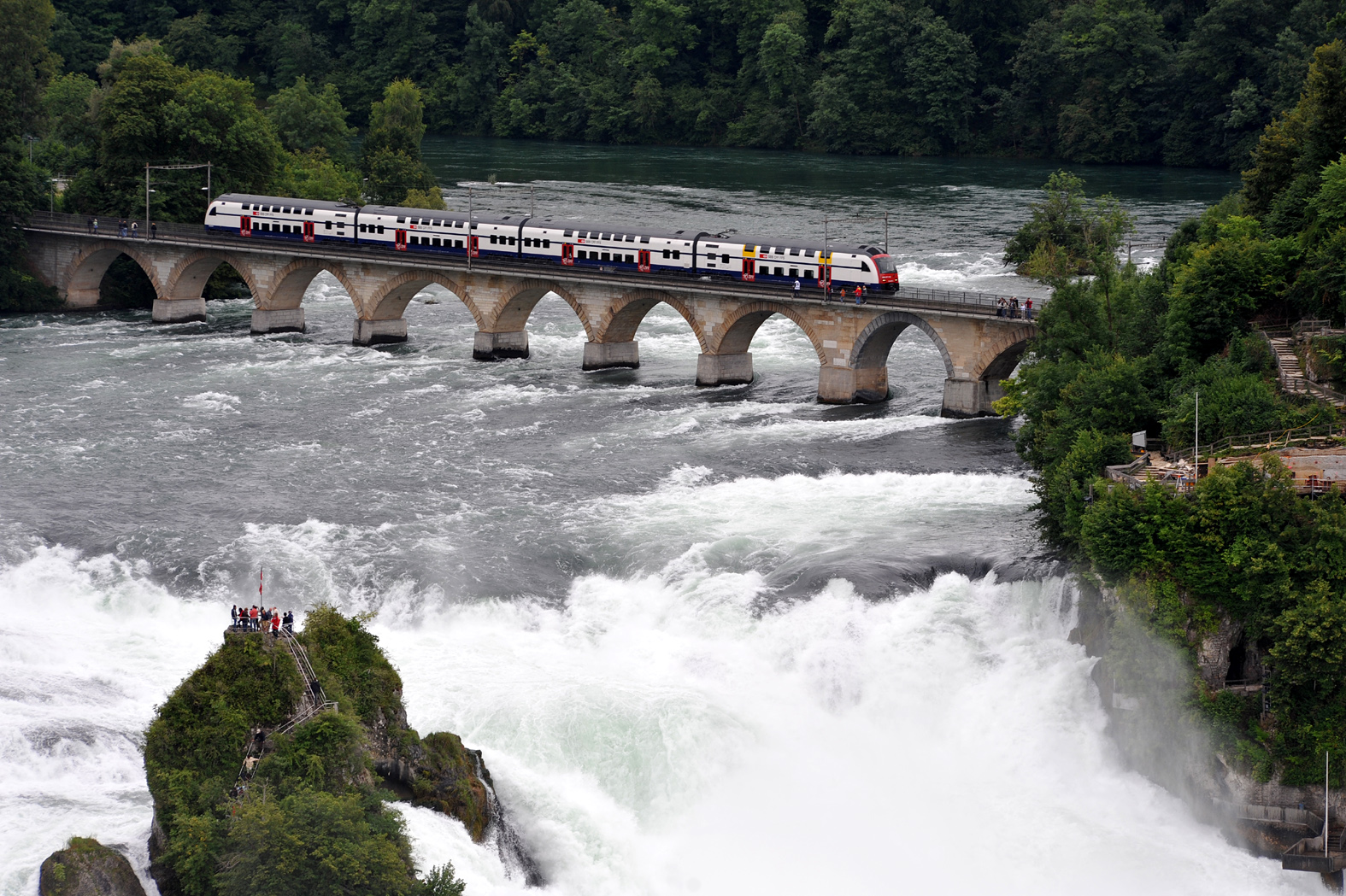 Rheinbrücke bei Laufen, SBB bridge crossing the Rhine Falls; Schaffhausen and Zurich, Switzerland.